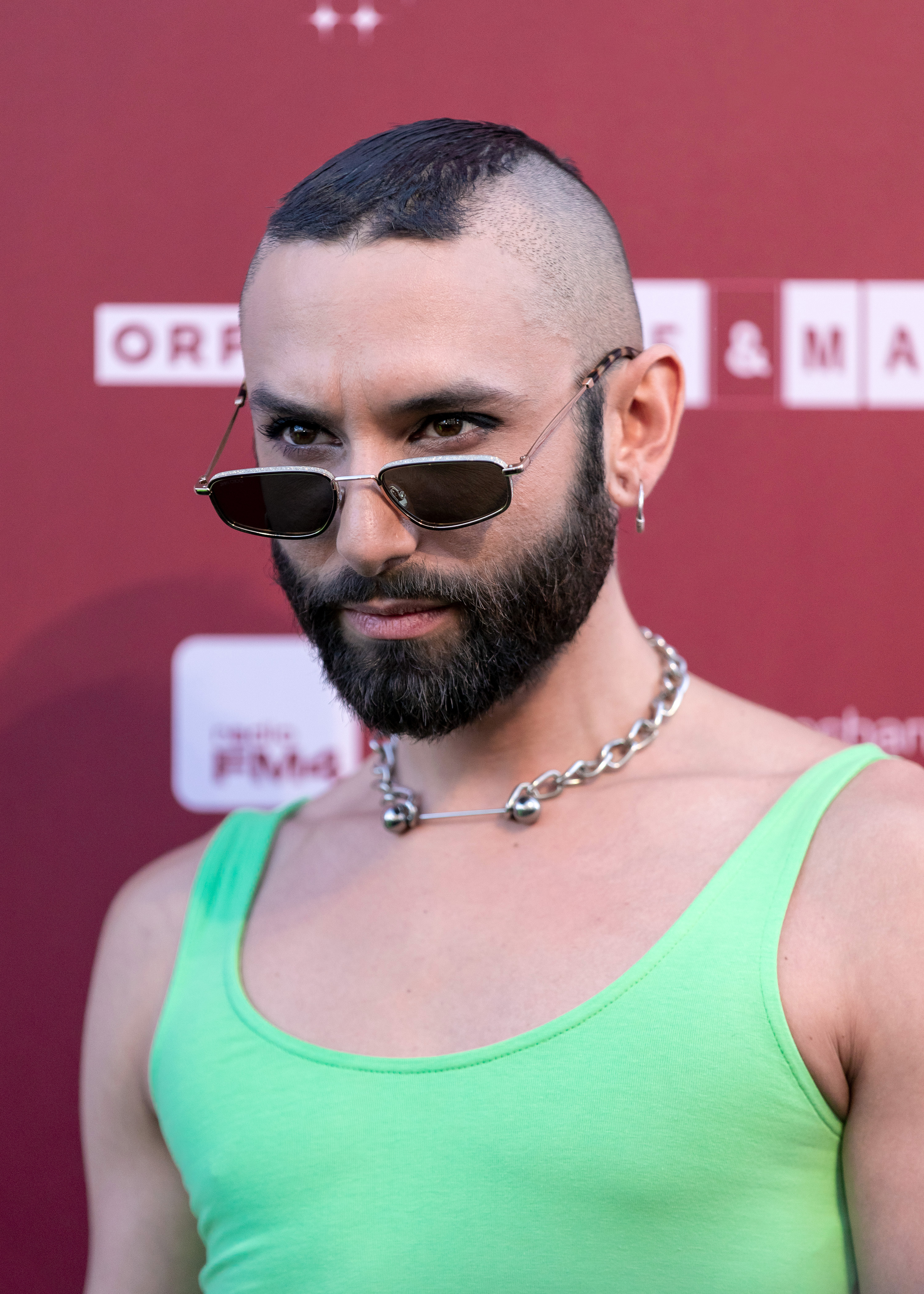 Conchita/Wurst at the Amadeus Austrian Music Award 2019 at Volkstheater in Vienna.